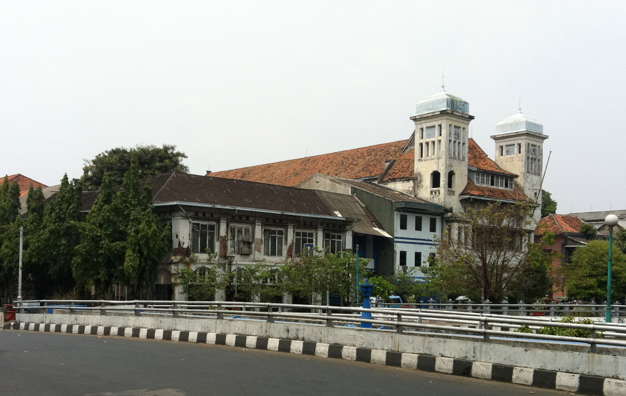 An abandoned building (former G.J. Kolff & Co Bookstore) (left) and Tjipta Niaga office (Internatio Building) (right)